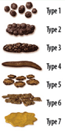 Bristol stool scale Type 1: Separate hard lumps, like nuts (hard to pass) Type 2: Sausage-shaped, but lumpy Type 3: Like a sausage but with cracks on its surface Type 4: Like a sausage or snake, smooth and soft Type 5: Soft blobs with clear cut edges (passed easily) Type 6: Fluffy pieces with ragged edges, a mushy stool Type 7: Watery, no solid pieces, entirely liquid